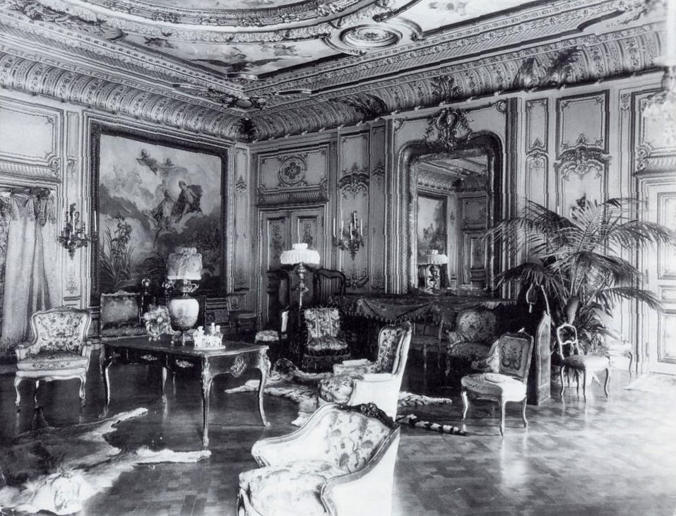 The salon of the Petit Chateau at 660 Fifth Avenue.